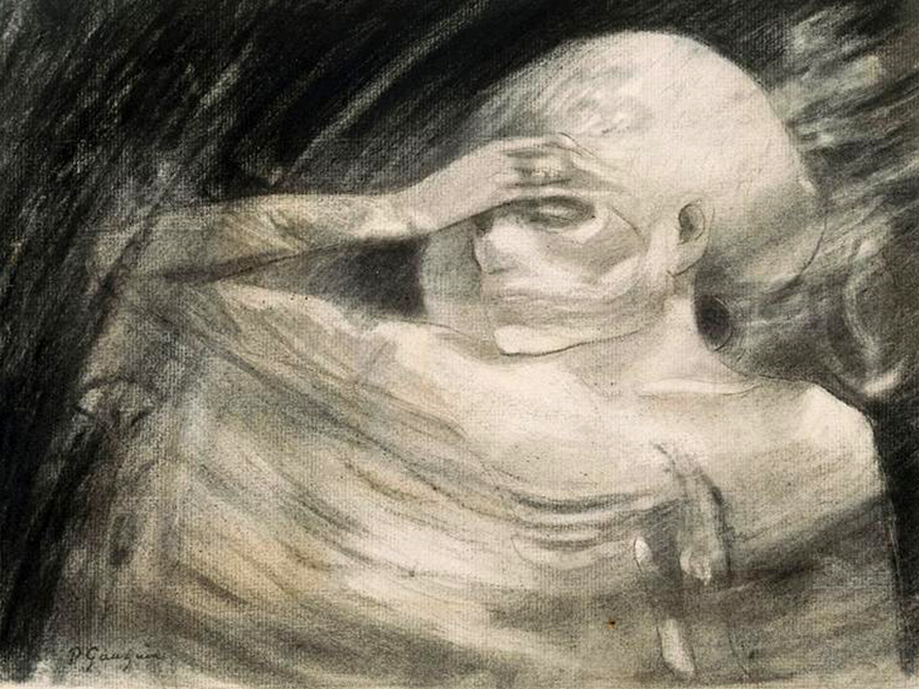 Madame la mort - Paul Gauguin